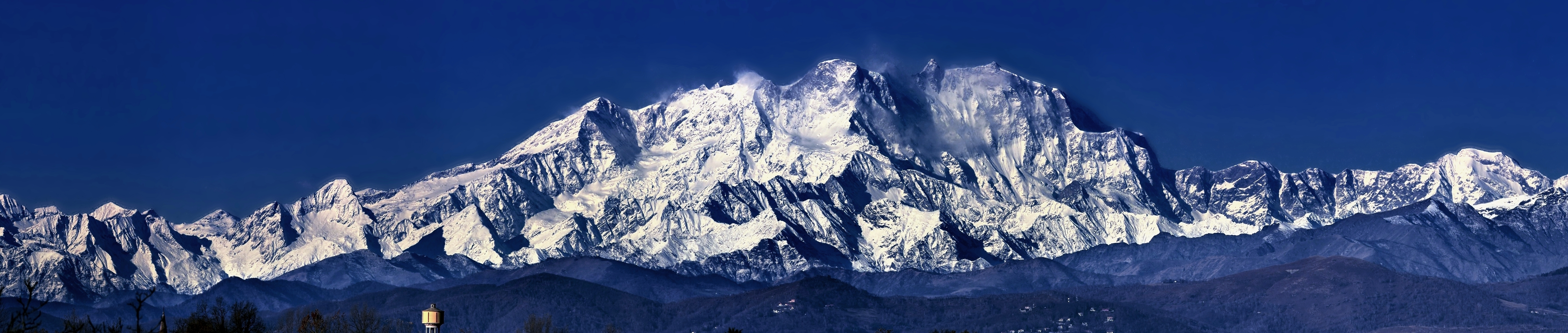 Panorama del Monte Rosa visto dai pressi del Lago Maggiore in autunno.